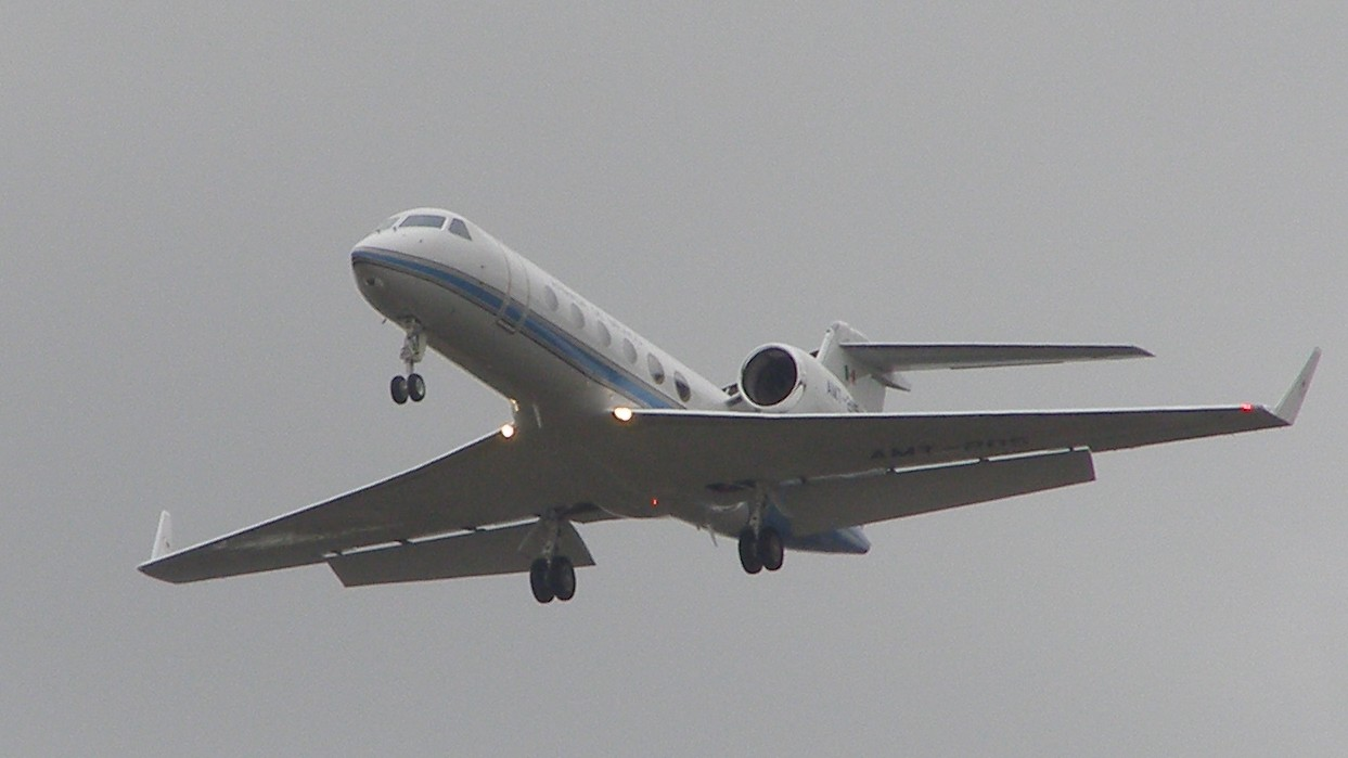 A Gulfstream G450 executive jet serial number "AMT-205" operated by the Mexican Navy on approach to land on Runway 26L at Gatwick Airport, England in 2009.